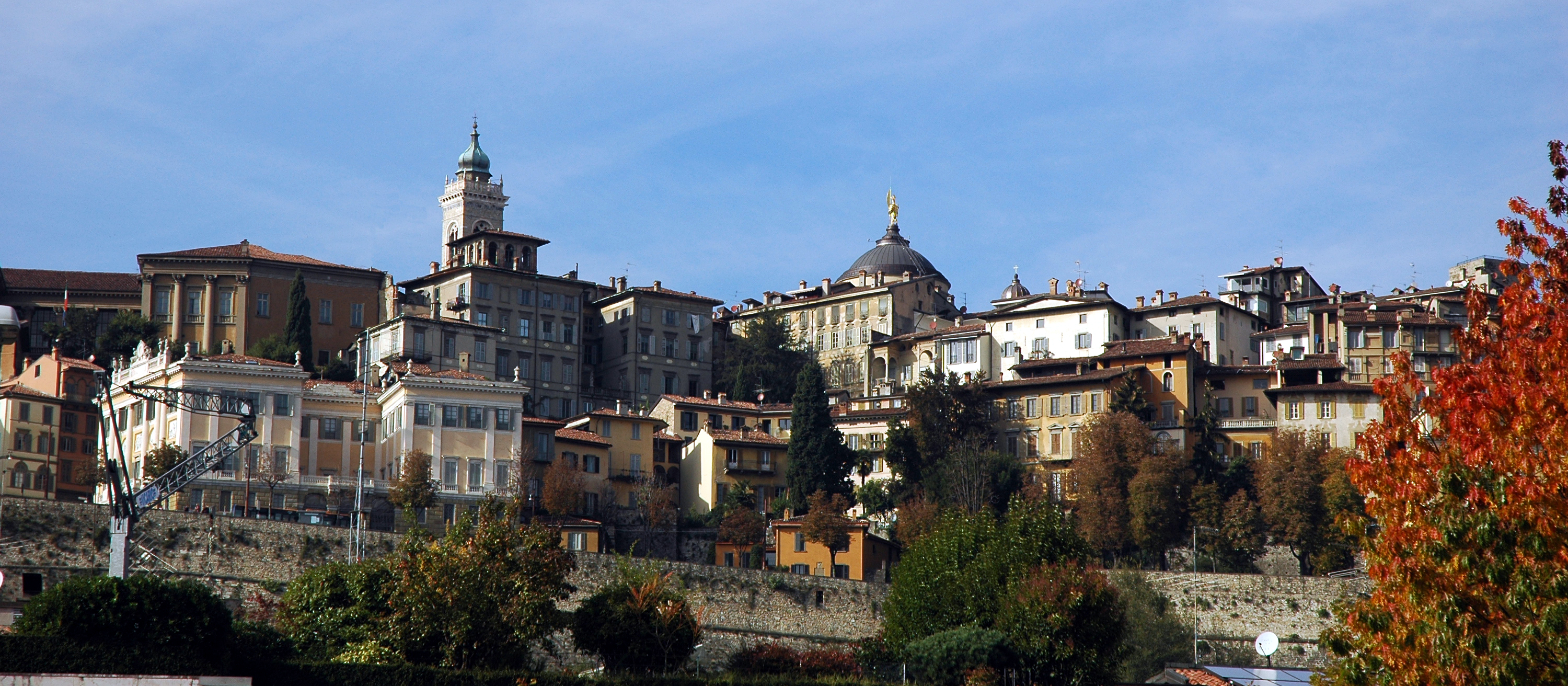 Country : Italy Region : Lombardy Province : Bergamo (BG)